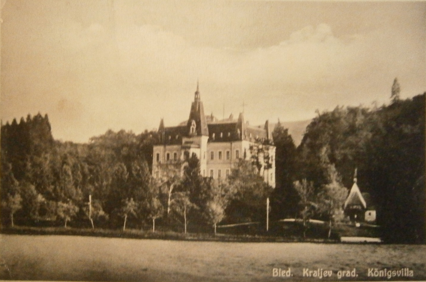 Postcard of Bled.